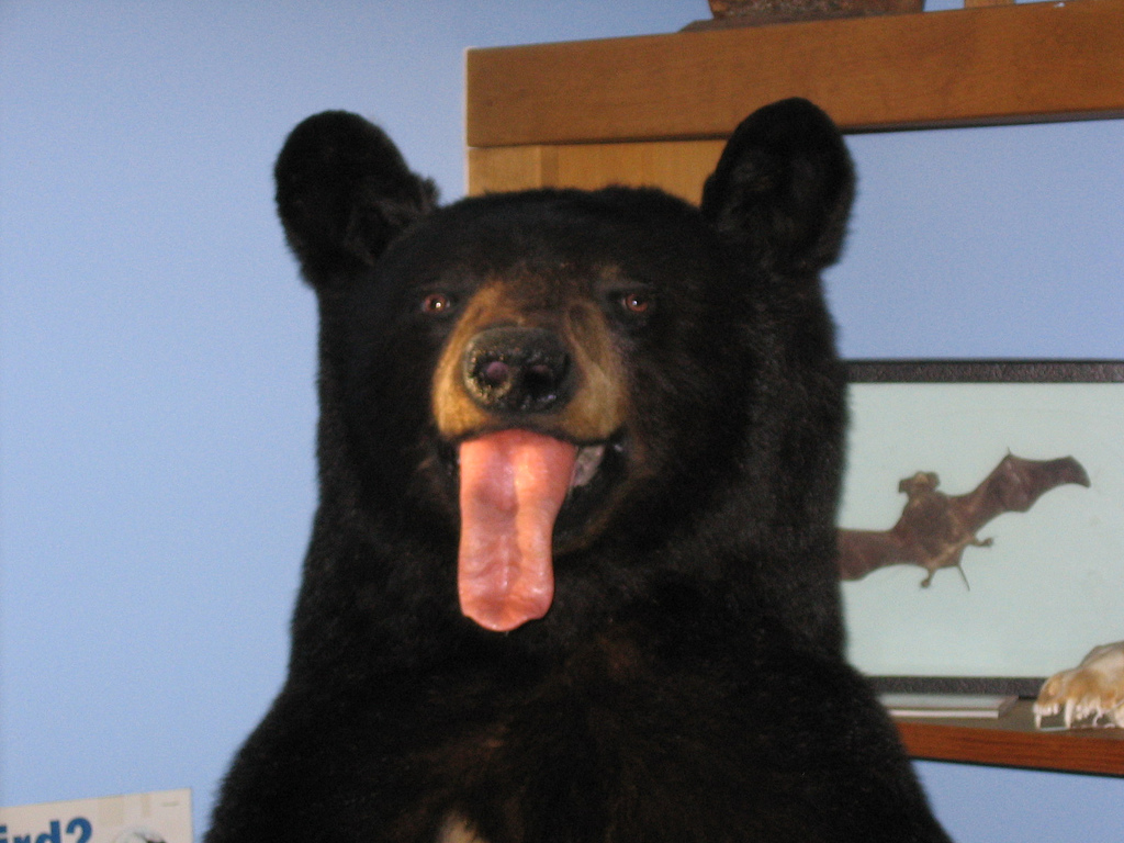 April Fool's bear